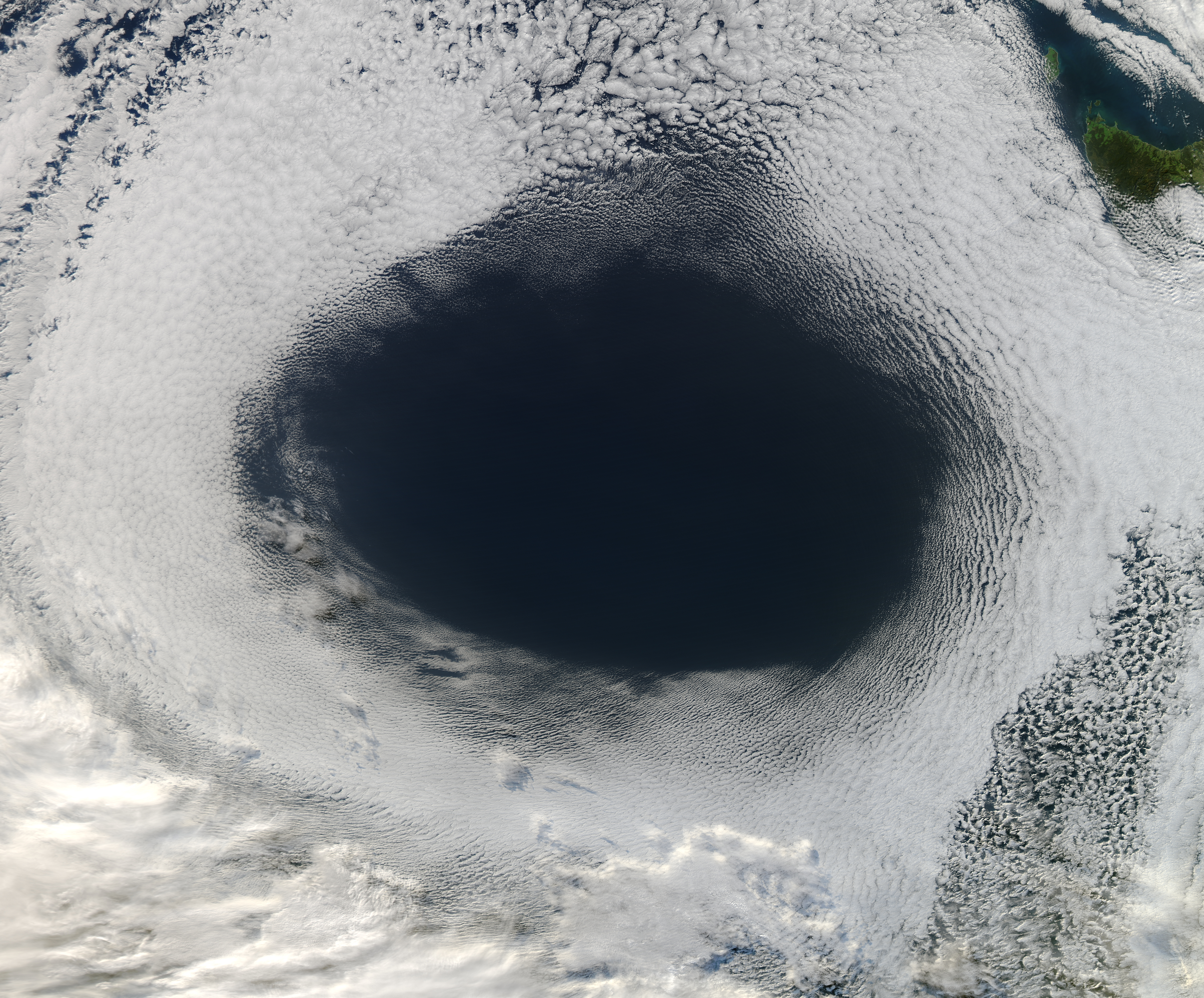 The Moderate Resolution Imaging Spectroradiometer (MODIS) on NASA’s Aqua satellite acquired this view of a hole in a cloud formation at 3:00 p.m. local time (05:00 Universal Time) on June 5, 2012. The weather system over the Great Australian Bight cut out the oval-shaped hole from a blanket of marine stratocumulus clouds in Southern Australia at Great Australian Bight. Satellite loop at the the time the image above was taken, showed the Anticyclone was spinning anticlockwise, as it is in the Southern Hemisphere. Sea-level pressure maps published by the Australian Bureau of Meteorology on June 5 showed that the shape of the cloud hole matched the shape of the high-pressure area. However, the center of high pressure and the cloud hole didn't match precisely; the center of the high was near the western edge of the clear area, about 100 kilometers from the cloud edge. The area within the spot, which marks the High Pressure area, marks the boundary of 1036hpa pressure. The center of the spot was 1039hpa at the time the image was taken-more proof that this is a High Pressure area- The cloud hole, with a diameter that stretched as far as 1,000 kilometers (620 miles) across, was caused by sinking air associated with an area of high pressure near the surface. Globally, the average sea-level pressure is about 1013 millibars; at the center of this high, pressures topped 1,040 millibars.